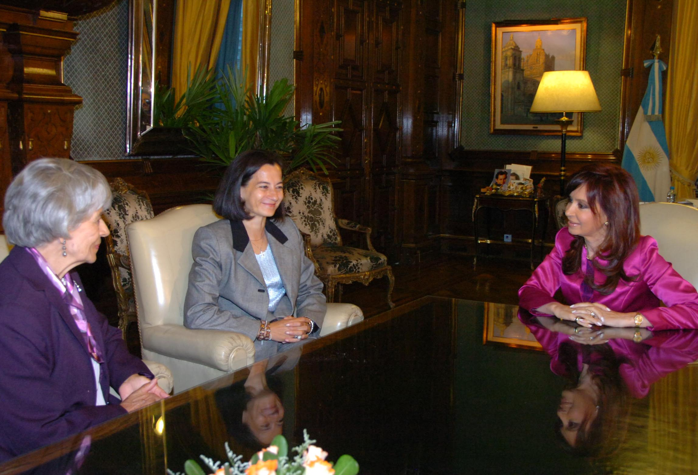 Clara Rojas with her mother Clara de Rojas and Cristina Fernández president of Argentina.